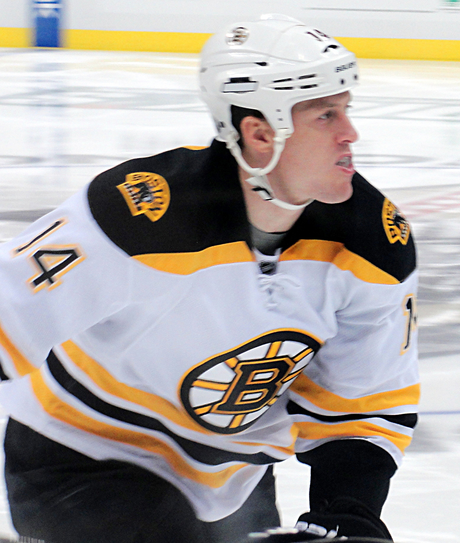 Boston Bruins defenseman Joe Corvo during a game against the Pittsburgh Penguins, March 11, 2012 at Consol Energy Center in Pittsburgh, PA.